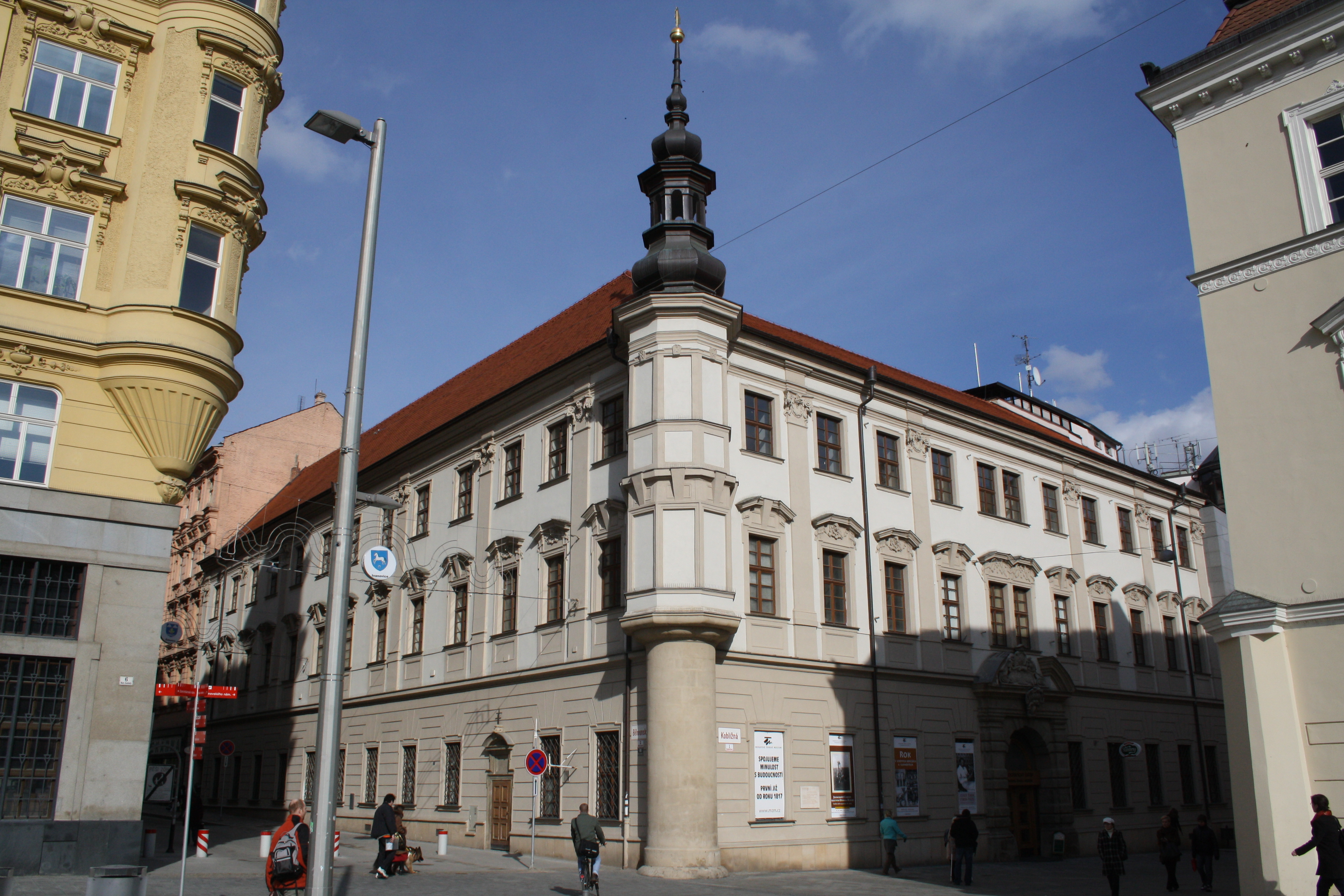 Overview of Palác Šlechtičen of Moravian Museum in Brno-Center.